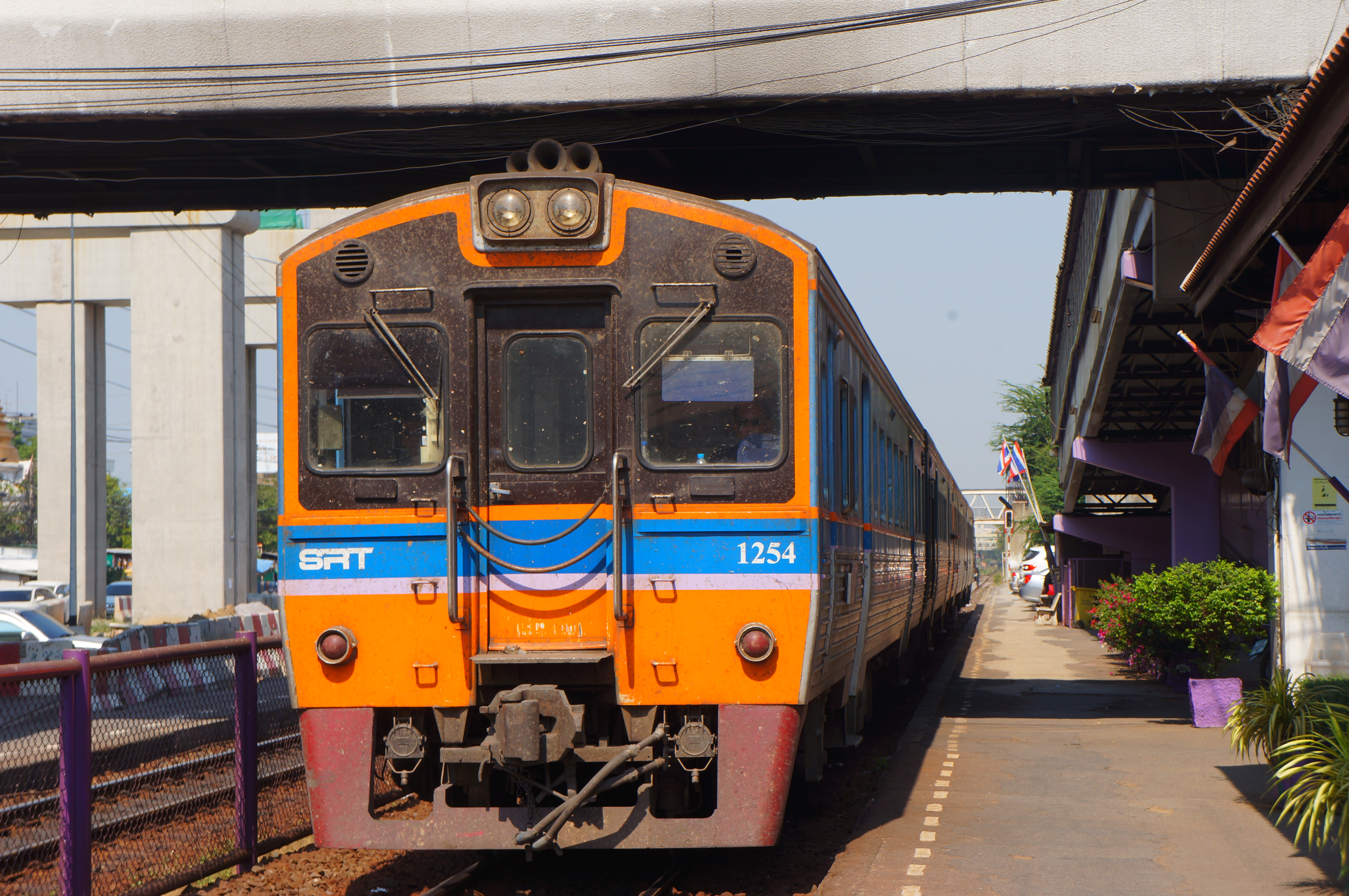 201701 NKF-1254 operating Train 72 from Ubon Ratchatani to Bangkok enters into Don Muang Station. Was NKF's livery changed into same as THN?